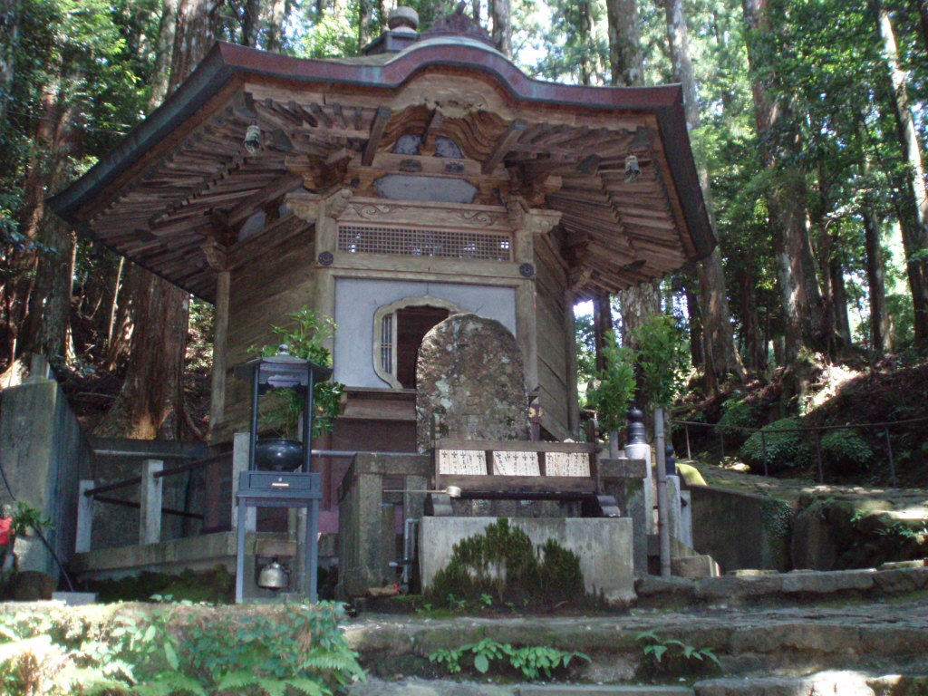 Charnel_house_of_AMIDADERA-temple_(Nachi-Katsuura,_Wakayama)